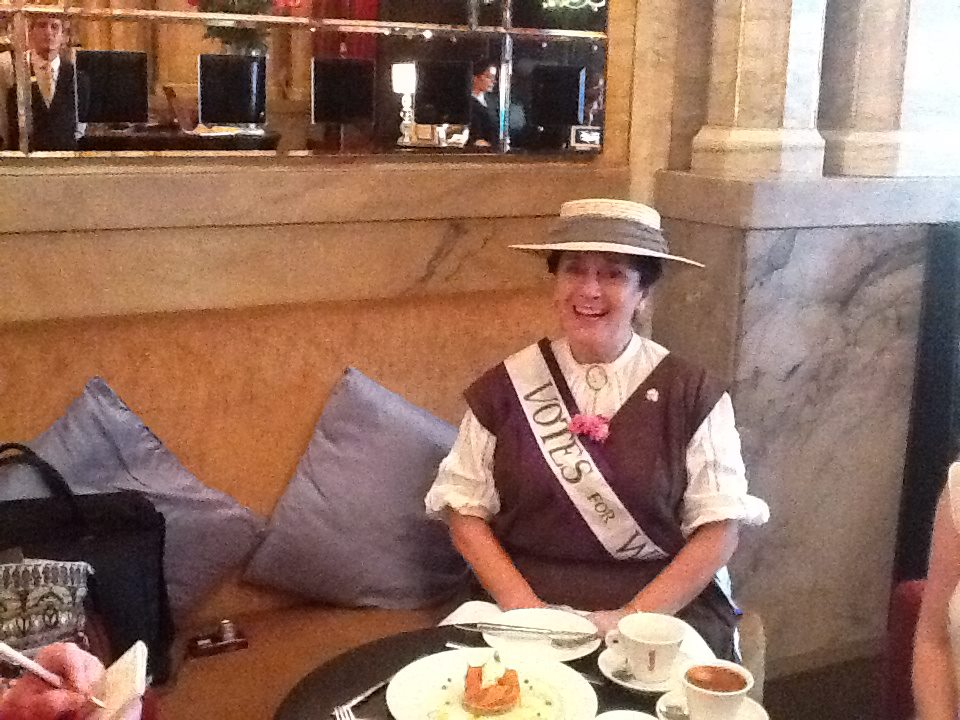 The Muriel matters Society Inc in full suffragettes outfits. The suffragettes used to come and discuss matters every Friday for afternoon tea.